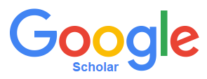 Logo of Google Scholar, introduced in September 2015.